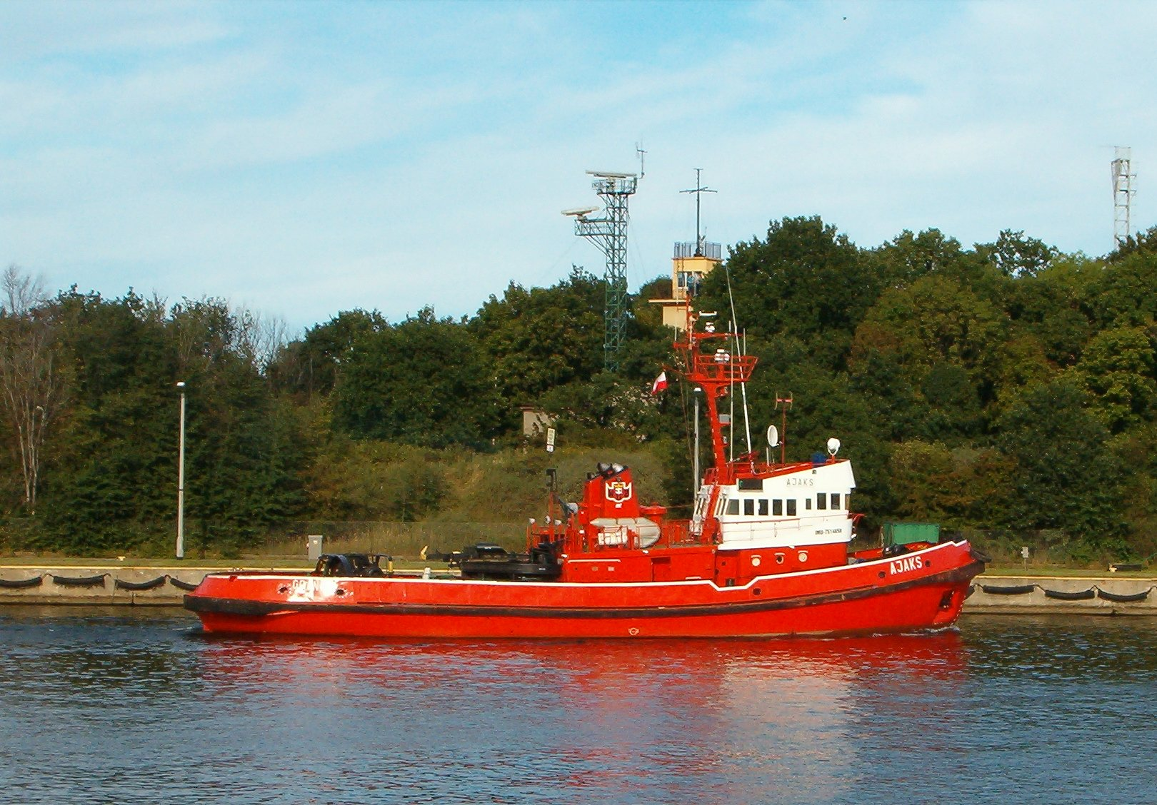 Tugboat 'Ajaks' on the Martwa Wisła river in Gdańsk, Poland. IMO Number: 7514658 MMSI Number: 261000230 Callsign: SPG2071 Length: 35 m Beam: 9 m